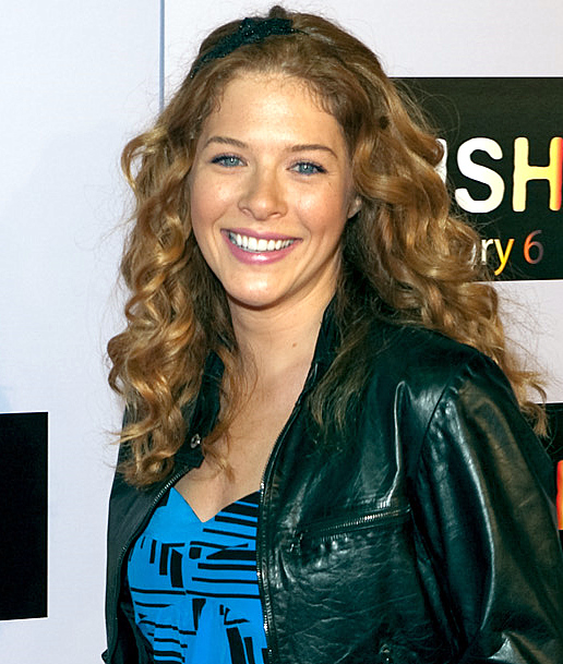 Rachelle Lefevre arrives at the premiere of Push, Mann Theater, Westwood.